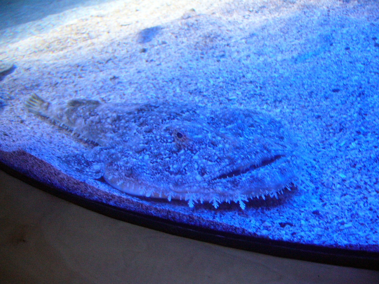 Lophius piscatorius (Angler) in Sala Maremagnum of Aquarium Finisterrae (House of the Fishes), in Corunna, Galicia, Spain.